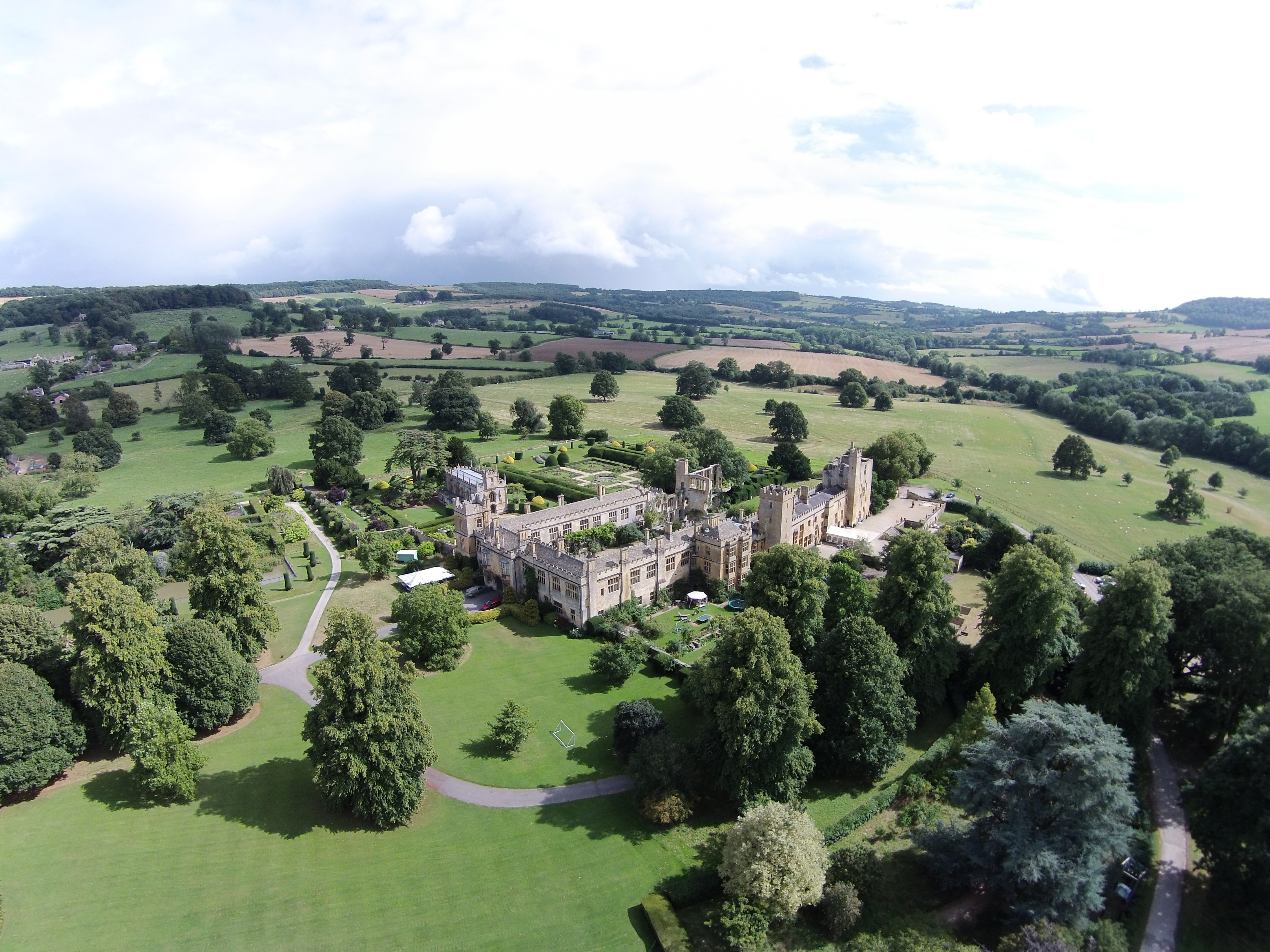 Aerial photo of Sudeley Castle. Camera: DJI Phantom 2 Vision+ UAV (quadcopter drone)